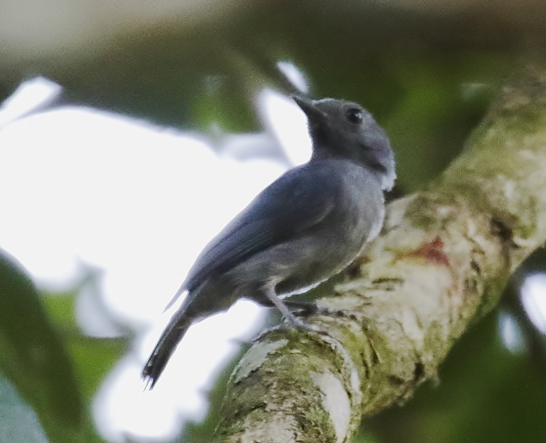 Dusky-throated antshrike (male) at Xapuri, Acre, Brazil